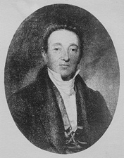 Samuel Augustus Foot